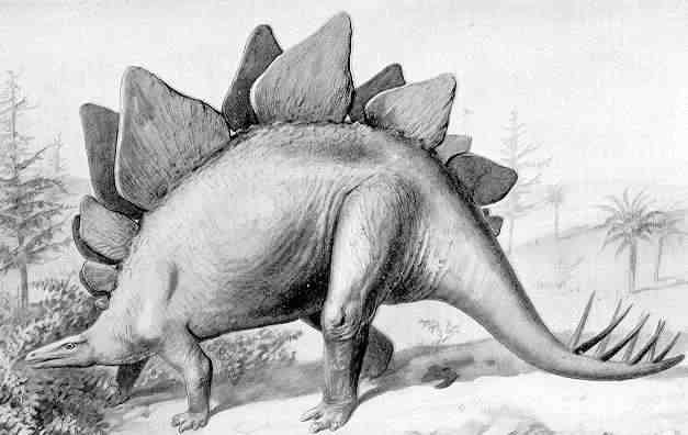 Life restoration of Stegosaurus ungulatus by T. Smit, 1911. After Rev. H.N. Hutchinson